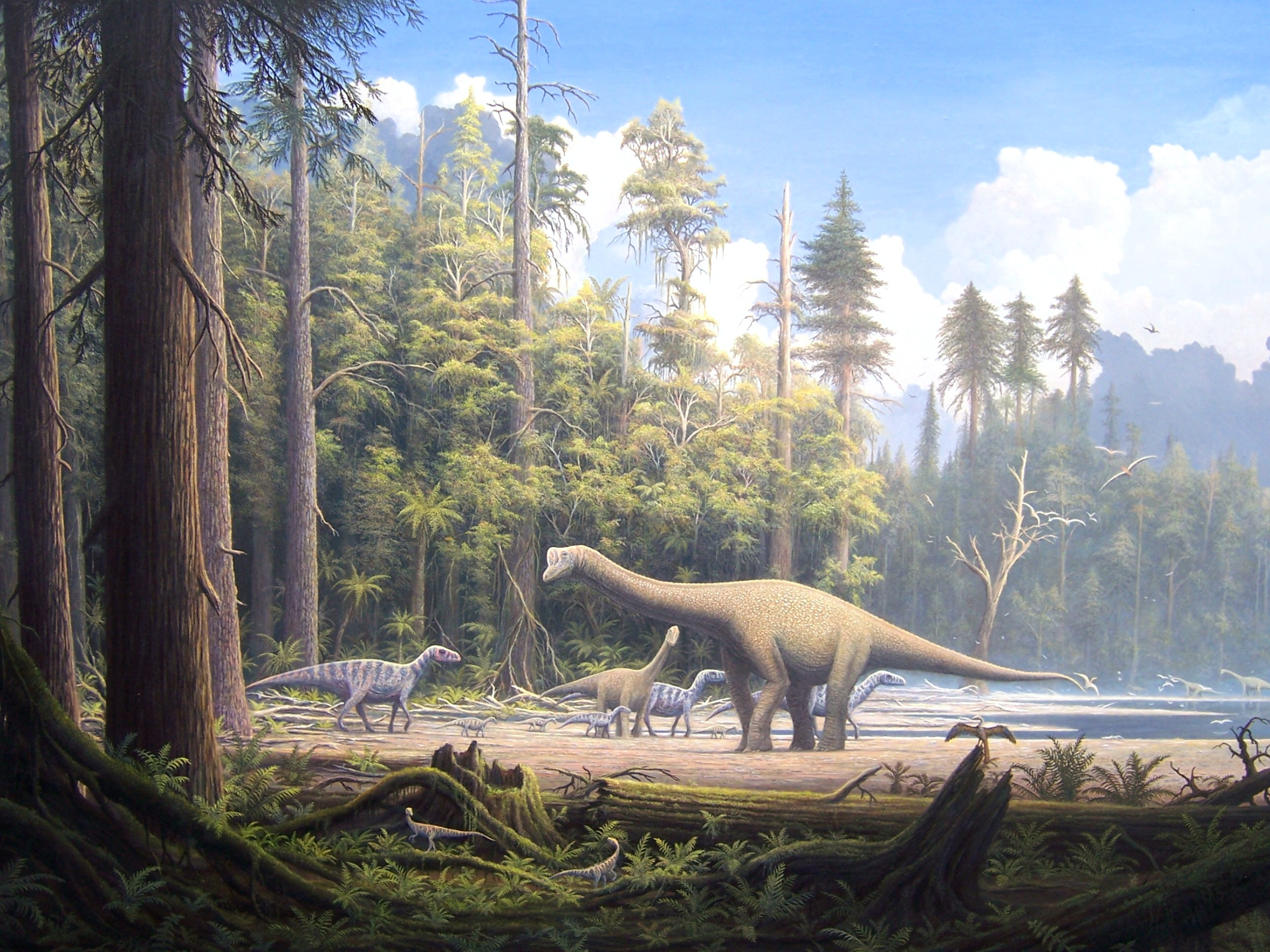 Painting of a late Jurassic Scene on one of the large island in the Lower Saxony basin in northern Germany. It shows an adult and a juvenile specimen of the sauropod Europasaurus holgeri and iguanodons passing by. There are two Compsognathus in the foreground and an Archaeopteryx at the right.